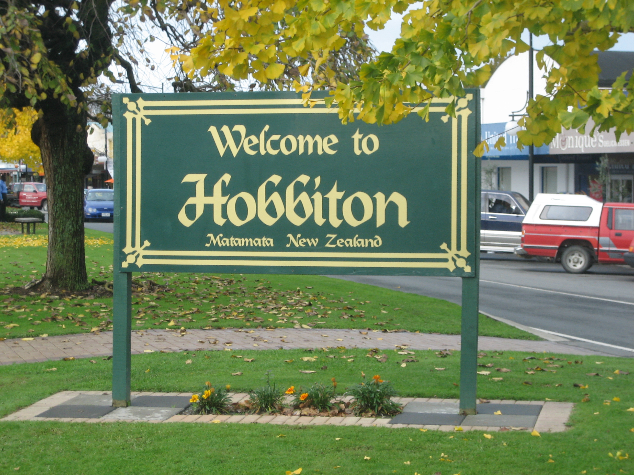 Description: The Welcome to Hobbiton sign was placed in Matamata, NZ after the filming of The Lord of the Rings Trilogy as Peter Jackson chose this site for the Shire. Photographer: Michael Goetter